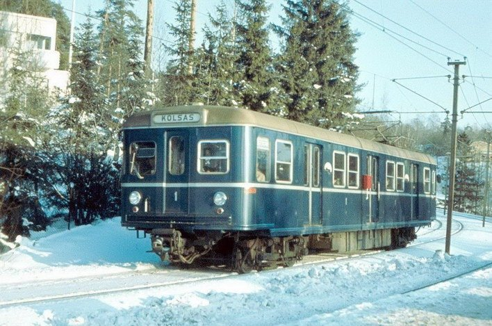 Tram 1 of Bærumsbanen at Bjørnsletta (T prototype).